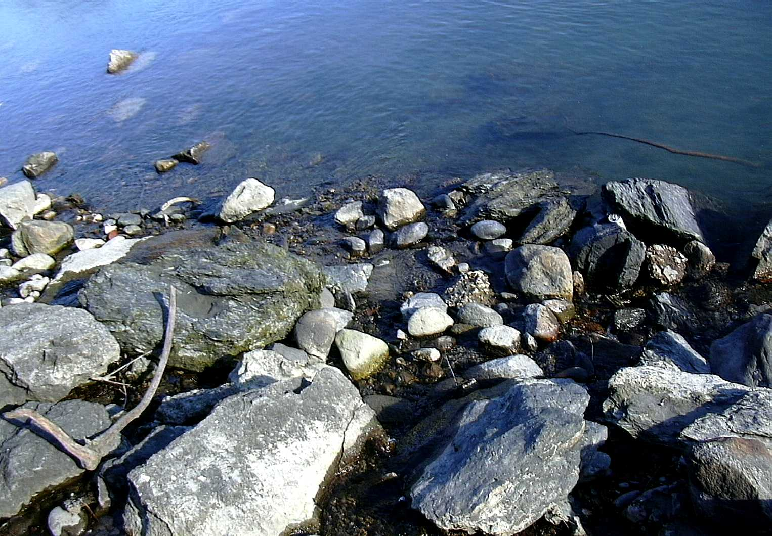 Fallbach Mouth in Innsbruck (bird view)